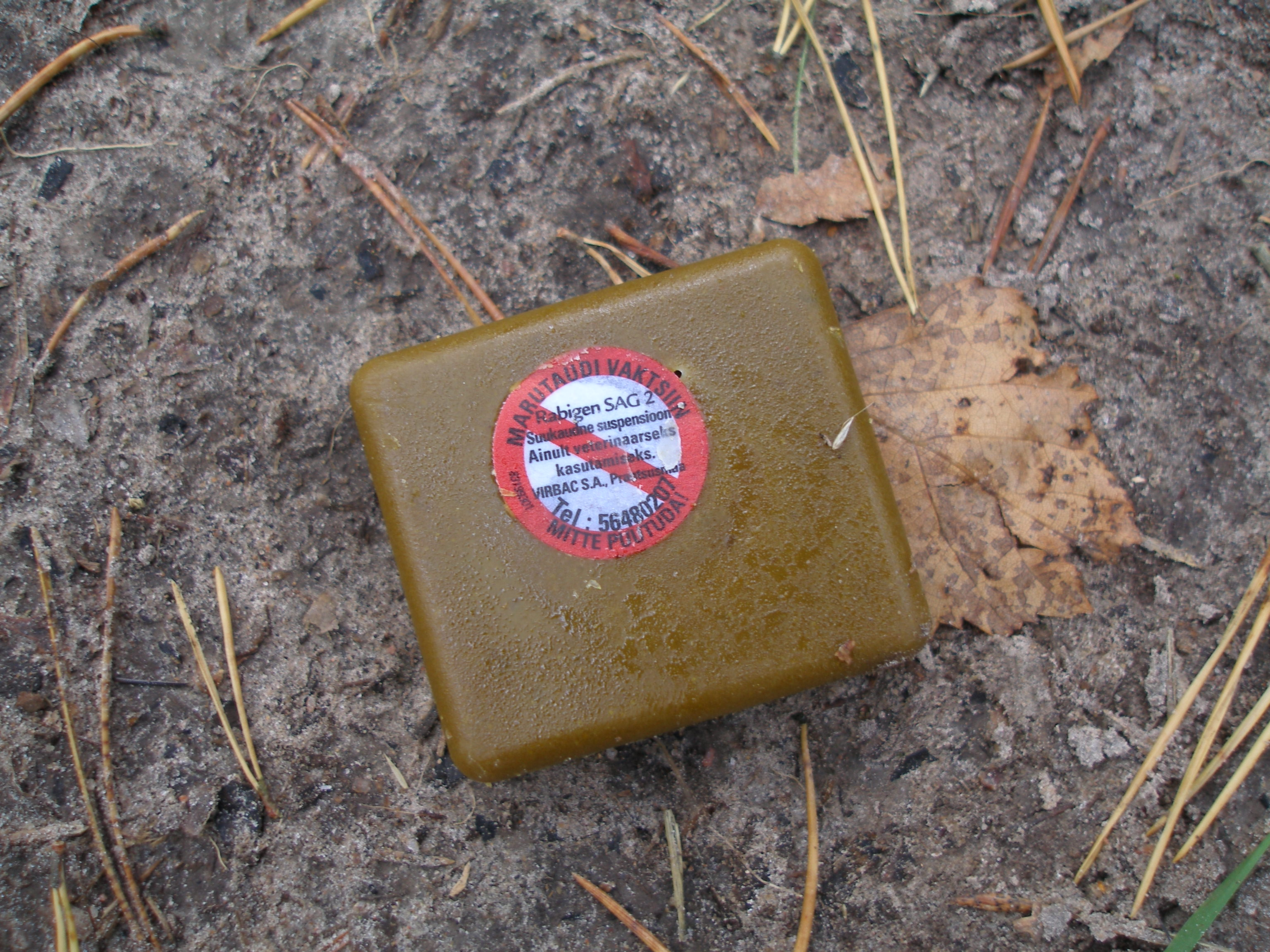 Rabies vaccine in a bait for wildlife vaccination. Randomly found in a forest in Põhja-Kõrvemaa Nature Reserve, Estonia, the same day the baits had been distributed in the area from an airplane. The text on the bait says "Oral solution. For veterinary use only. Do not touch!"